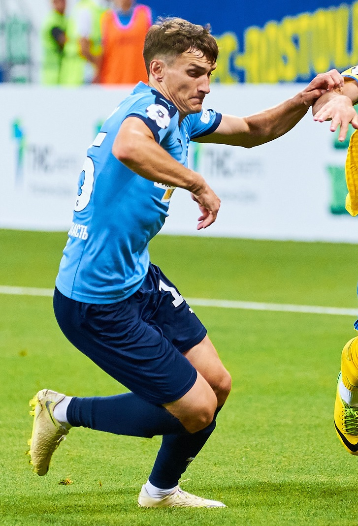 Georgi Zotov with FC Krylia Sovetov Samara in a game against FC Rostov.